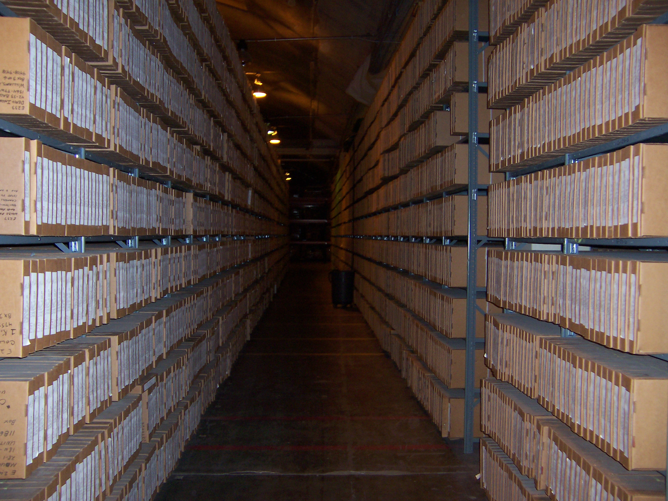 Slabbed cores are stored on shelves like books at the Core Research Center in Lakewood, CO.